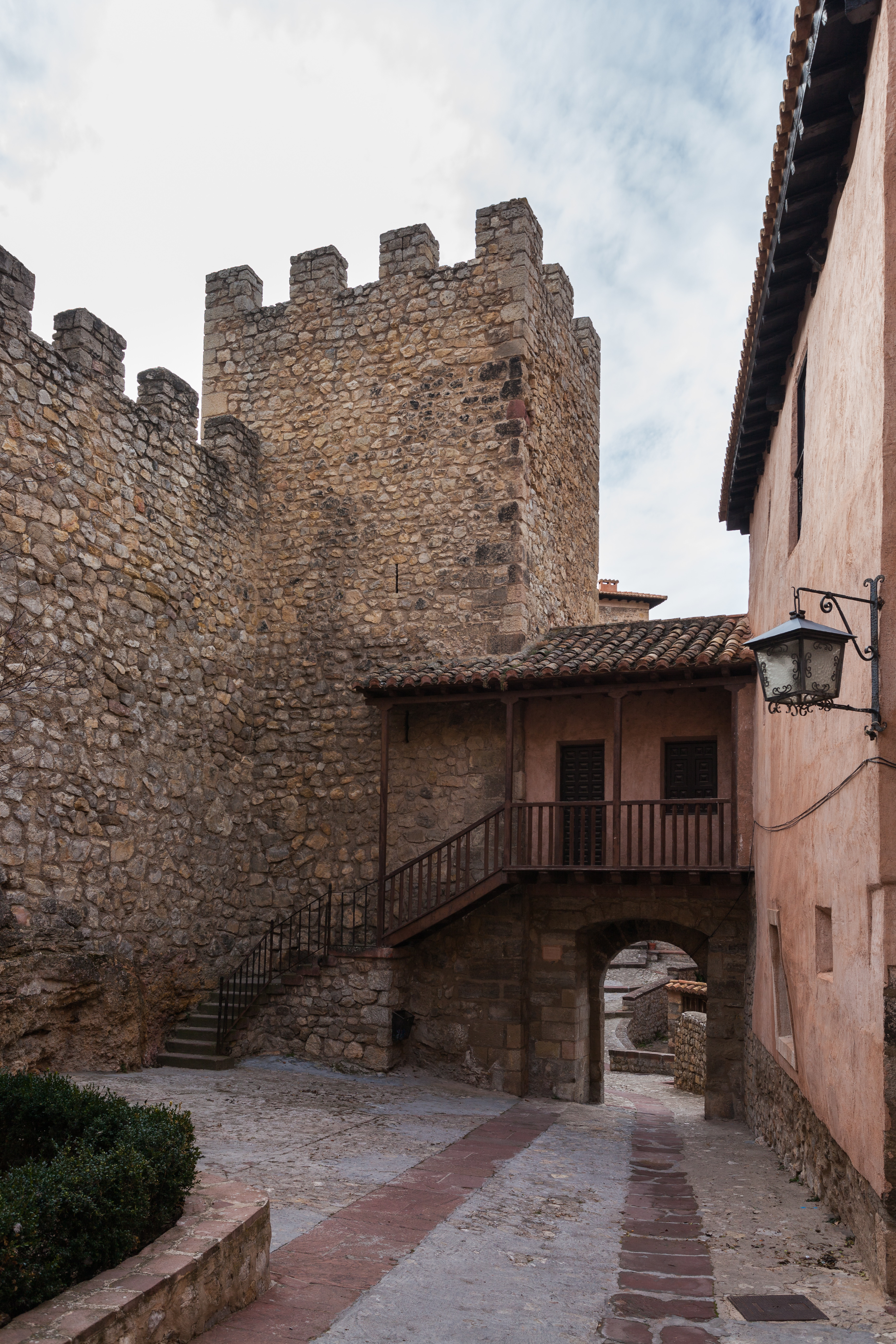 Albarracín, Teruel, Spain